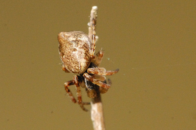 male Cyclosa conica spiderling, from Commanster, Belgian High Ardennes .